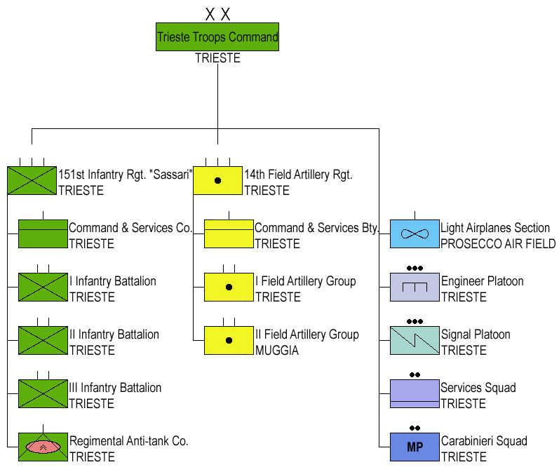 Structure of the Italian Army Trieste Troops Command in 1974